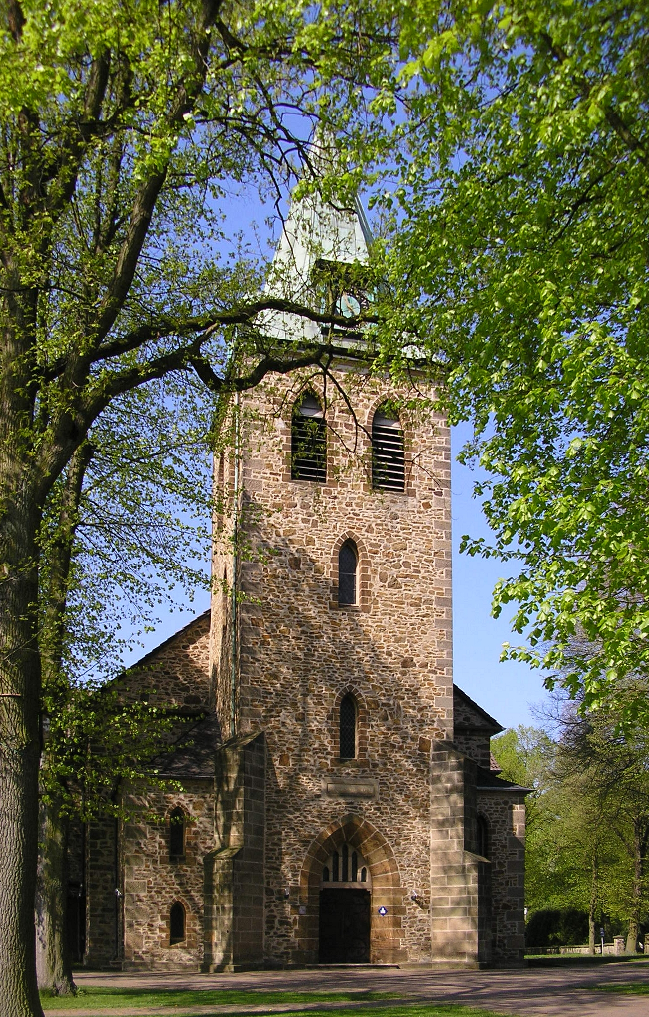 Church in Löhne, District of Herford, North Rhine-Westphalia, Germany.